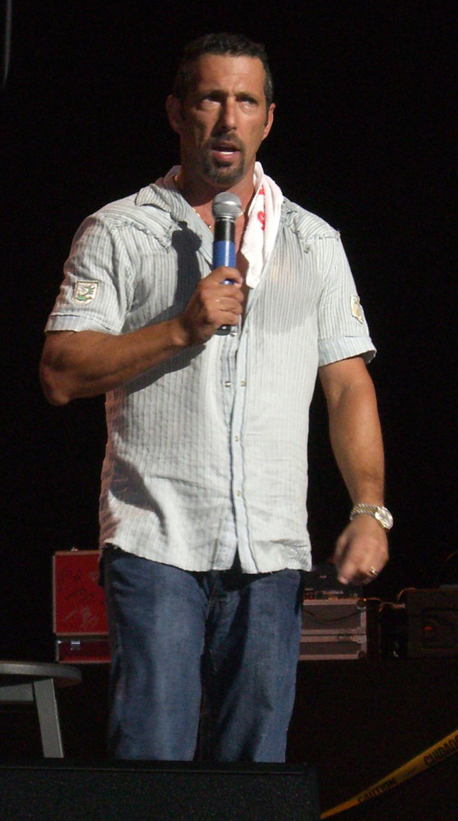 Rich Vos at the O&A Traveling Virus, 2007.